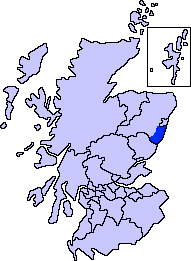 Aberdeenshire unitary council - Marr Area